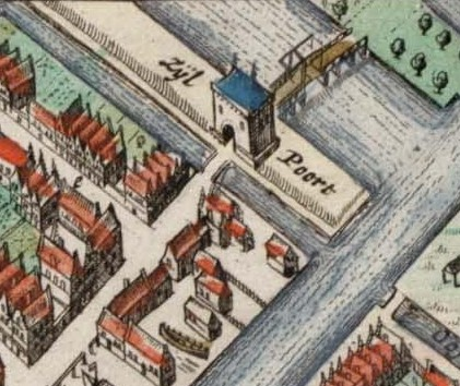 Detail showing the wooden Zijlpoort (city gate)